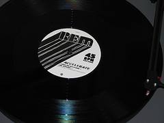 Accelerate vinyl disk.